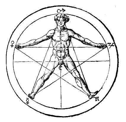 Image of a human body in a circumscribed pentagram, from chapter 27 of book 2 of Heinrich Cornelius Agrippa's Libri tres de occulta philosophia ("three books of occult philosophy"). Symbols of the sun and moon are in center, while the other five classical "planets" are around the edge.